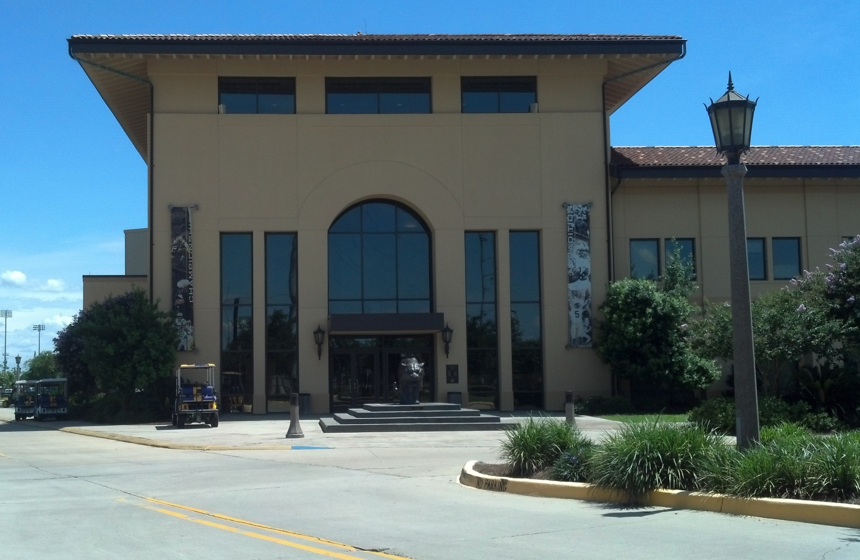 LSU Football Operations Center (Baton Rouge)